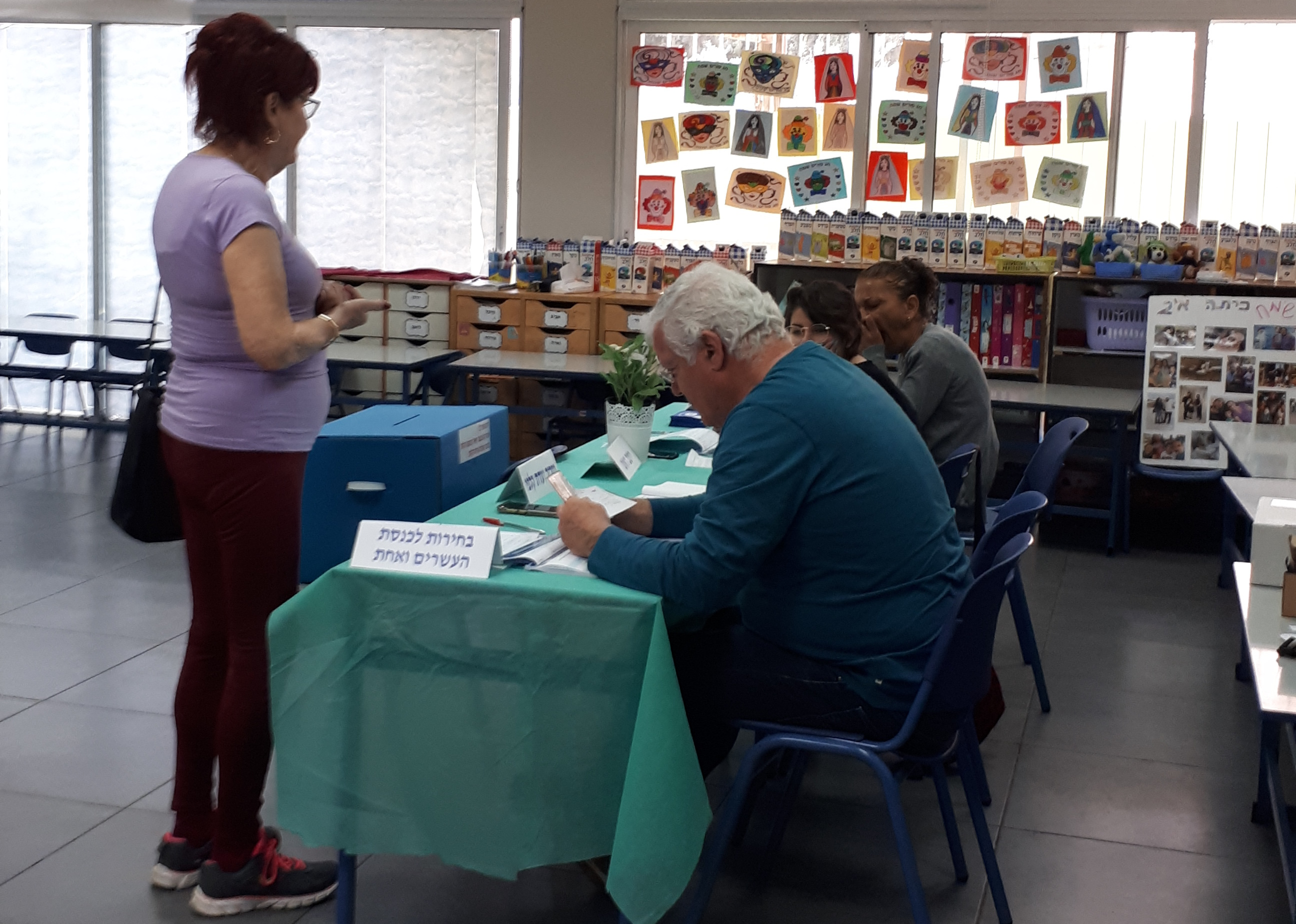 Polling station in Israel